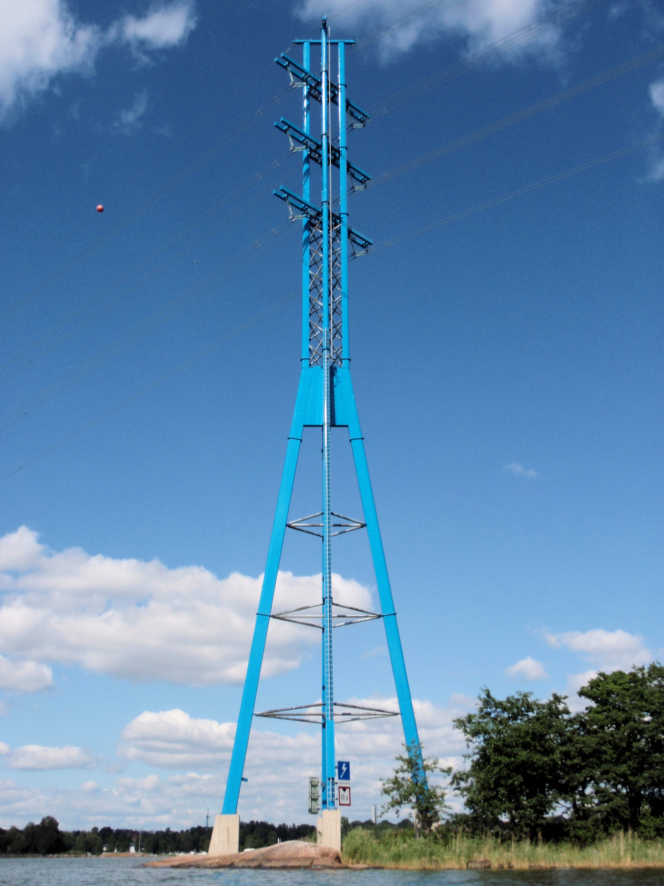 Powerline tower designed by professor Antti Nurmesniemi at Taivalluoto island